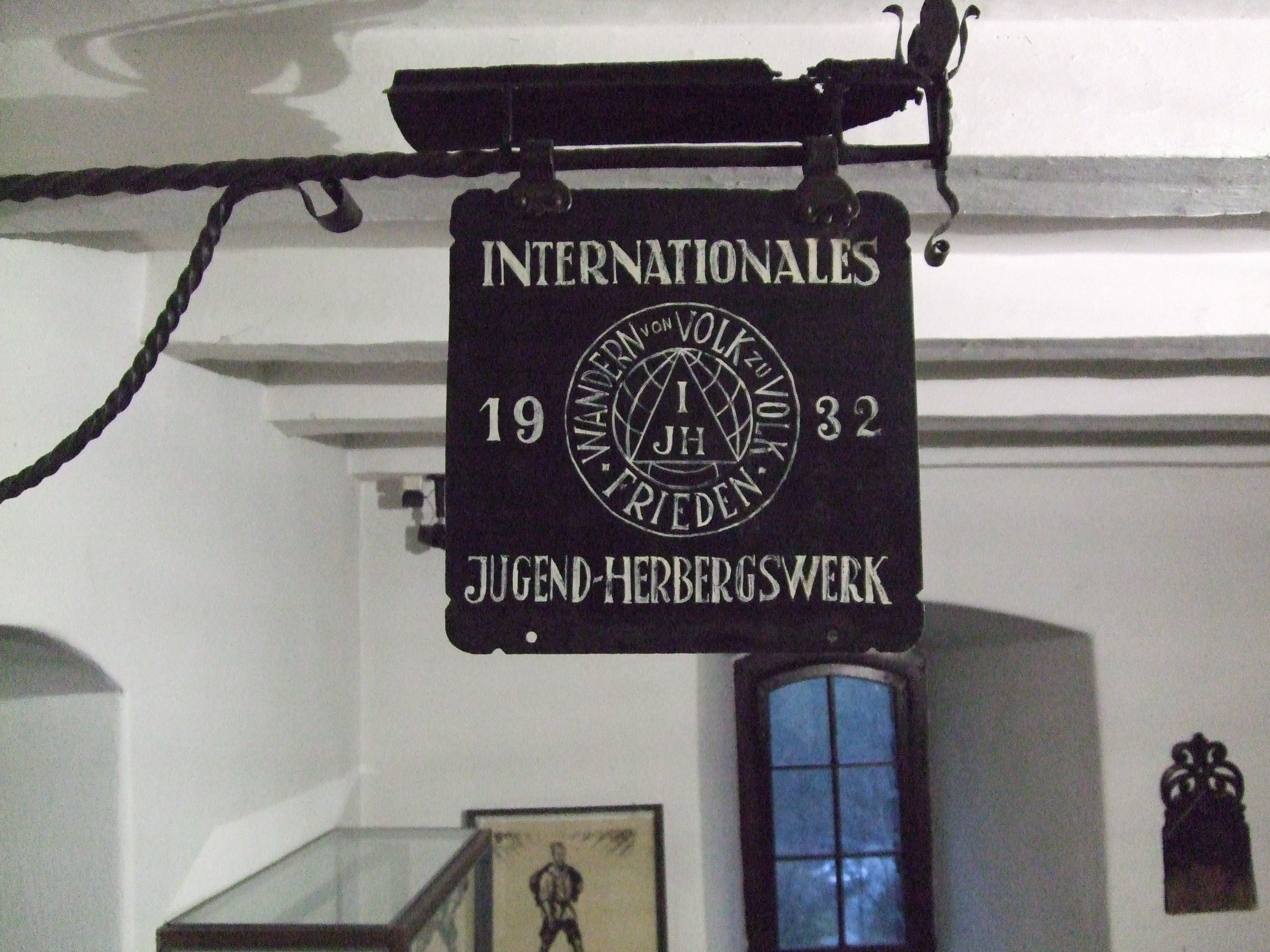 Youth Hostel Museum, Altena, Germany